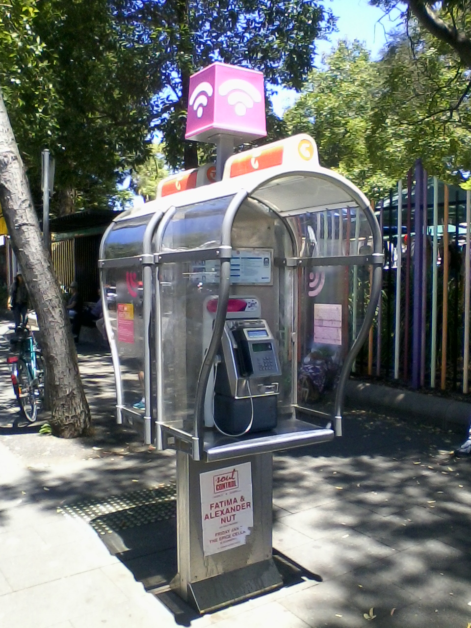 A Telstra WiFi Hotspot located on a public telephone in Glebe Point Road, Glebe, Sydney, NSW, Australia.